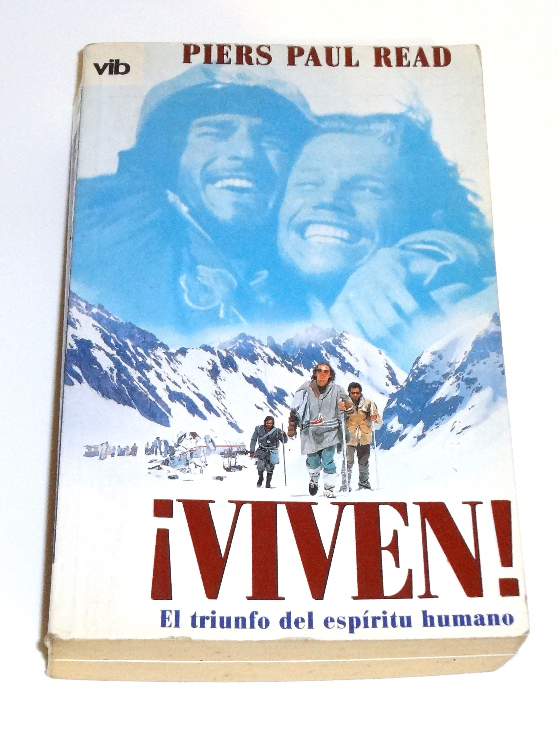 Cover - VIVEN (ALIVE) - by Piers Paul Read